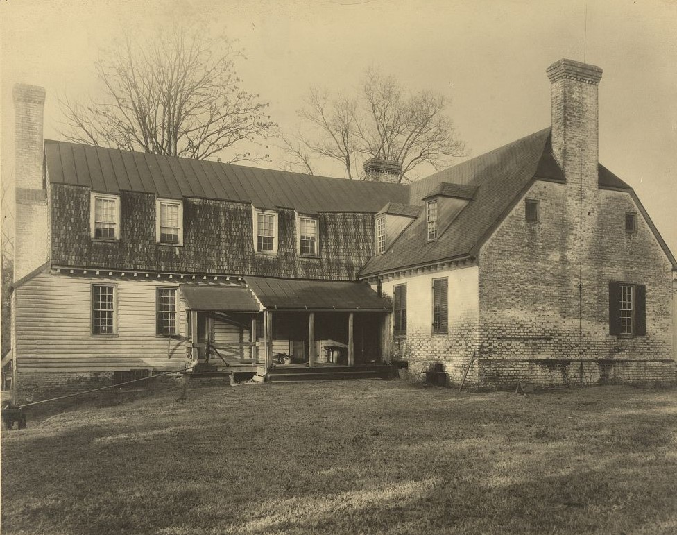 Title The Mansion, Bowling Green, Caroline County, Virginia Contributor Names Johnston, Frances Benjamin, 1864-1952, photographer Created / Published 1935. Subject Headings - United States--Virginia--Caroline County--Bowling Green. - Porches. - Chimneys. - Wings (Building divisions). - Houses. - Virginia--Caroline County--Bowling Green Format Headings Photographic prints. Notes - Title from photographer's inventory. - Building/structure dates: ca. 1700. - Related names: John C. White. - Built by Major Hoomes. Brick. - Original Carnegie Survey of the Architecture of the South neg. no. VA-1441. Library has no record of having this negative. - No corresponding reference print found in LOT 11841- 17. - Forms part of: Carnegie Survey of the Architecture of the South (Library of Congress). Medium 1 photographic print : b&w ; 16 x 20 in. Call Number/Physical Location LOT 12629-4 [item] [P&P] Repository Library of Congress Prints and Photographs Division Washington, D.C. 20540 USA Digital Id csas 04428 //hdl.loc.gov/loc.pnp/csas.04428 Control Number csas200904498 Reproduction Number LC-DIG-csas-04428 (digital file from exhibition print) Rights Advisory No known restrictions on publication. Online Format image Description 1 photographic print : b&w ; 16 x 20 in.